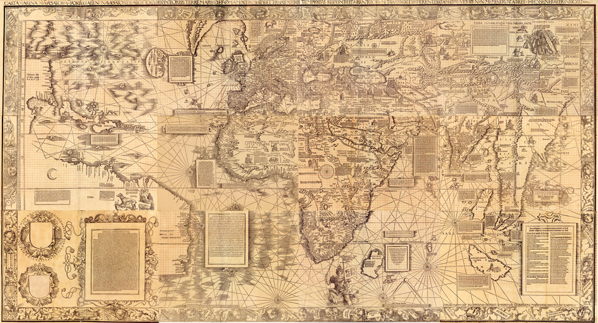 This is the Carta Marina from Matin Waldseemüller from 1516.